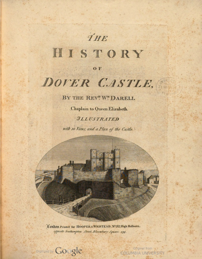 William Darell, History of Dover Castle (1797), trans. Alexander Campbell. The second edition of this work. The volume is composed of portions, translated from Latin, from a manuscript on Kentish castles by Darell, which is otherwise unpublished and untranslated.